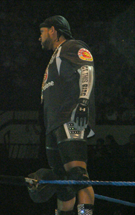 MVP @ Adelaide, South Australia 'Smackdown/ECW' house show on the 14th of June '08